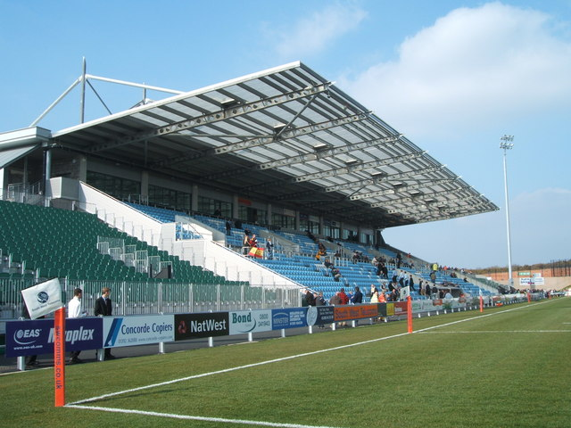 Exeter Chiefs Stadium, Sandy Park, ExeterExeter chiefs Rugby club moved to this state-of-the-art stadium in October 2006. It has a current capacity of 6,000, with plans to expand to 10,000.